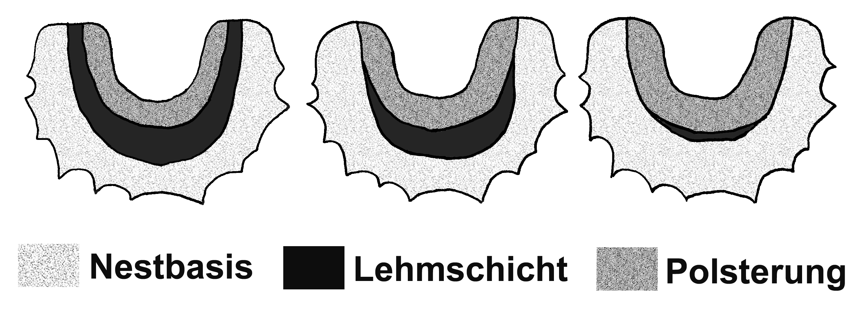 Nest types of Common Blackbird (Turdus merula)